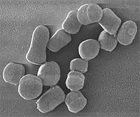 Scanning electron micrograph of Arthrobacter chlorophenolicus cells